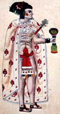 Ixtlilxochitl I